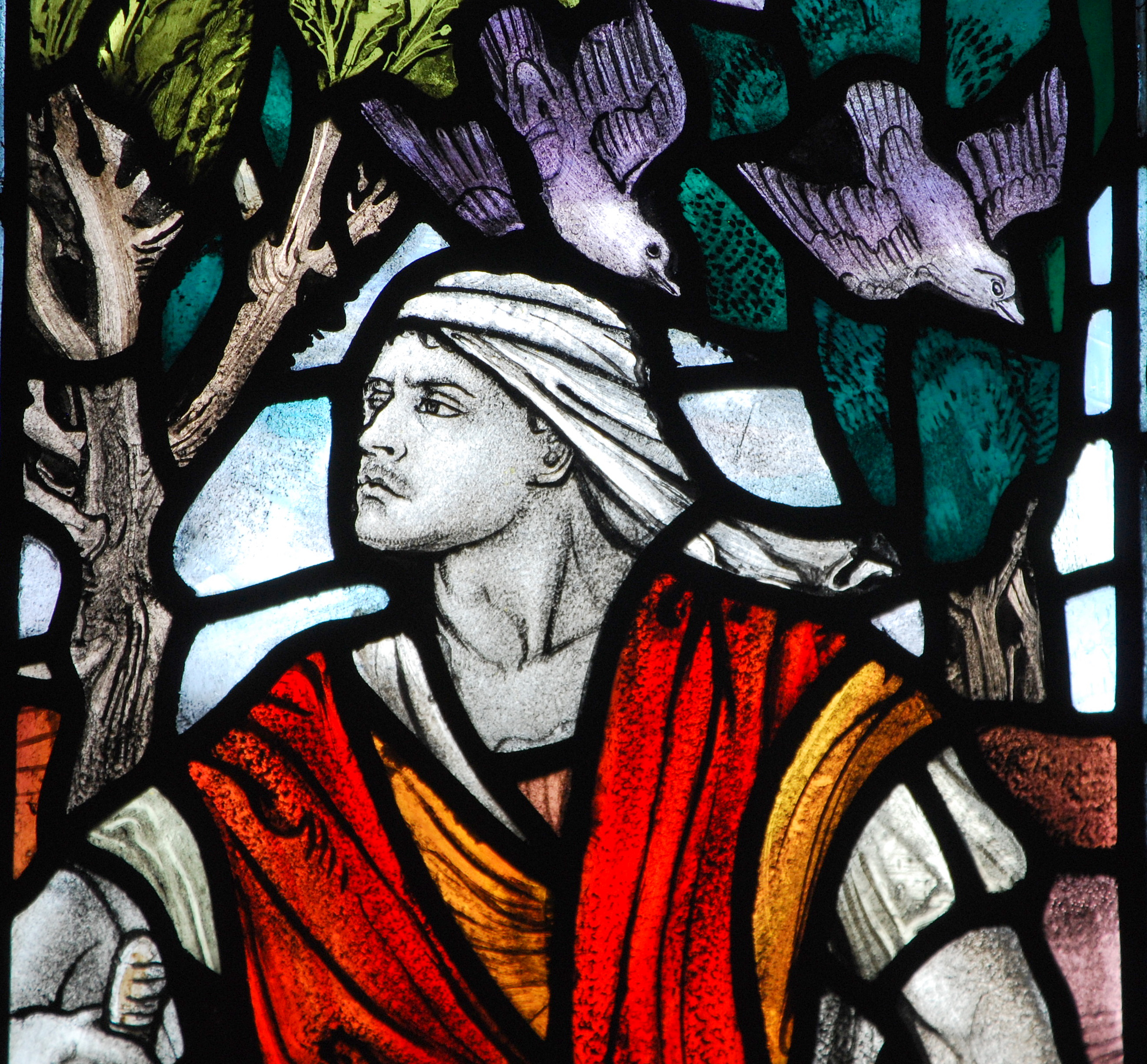 Church of England parish church of St Michael and All Angels, Steeple Claydon, Buckinghamshire: part of a stained glass window by Edward Woore (1880–1960)